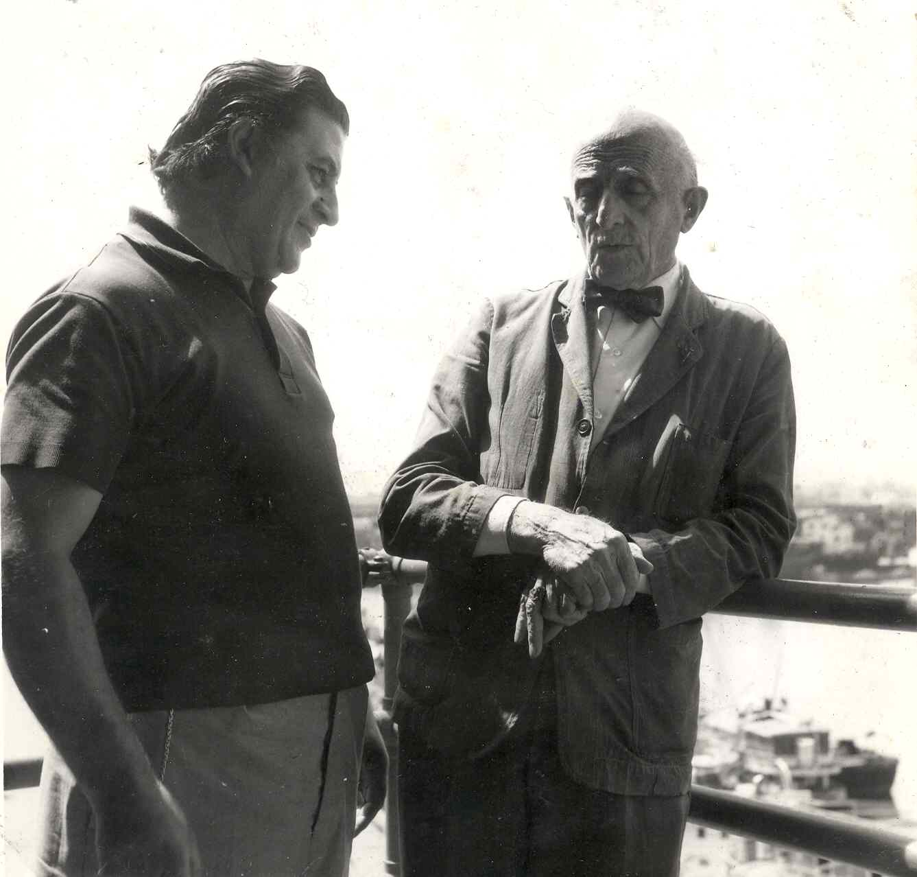 Hidelberg Ferrino and Benito Quinquela Martin